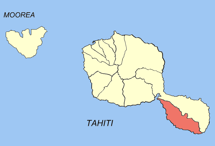 Map of Tahitian communes — Taiarapu-Ouest